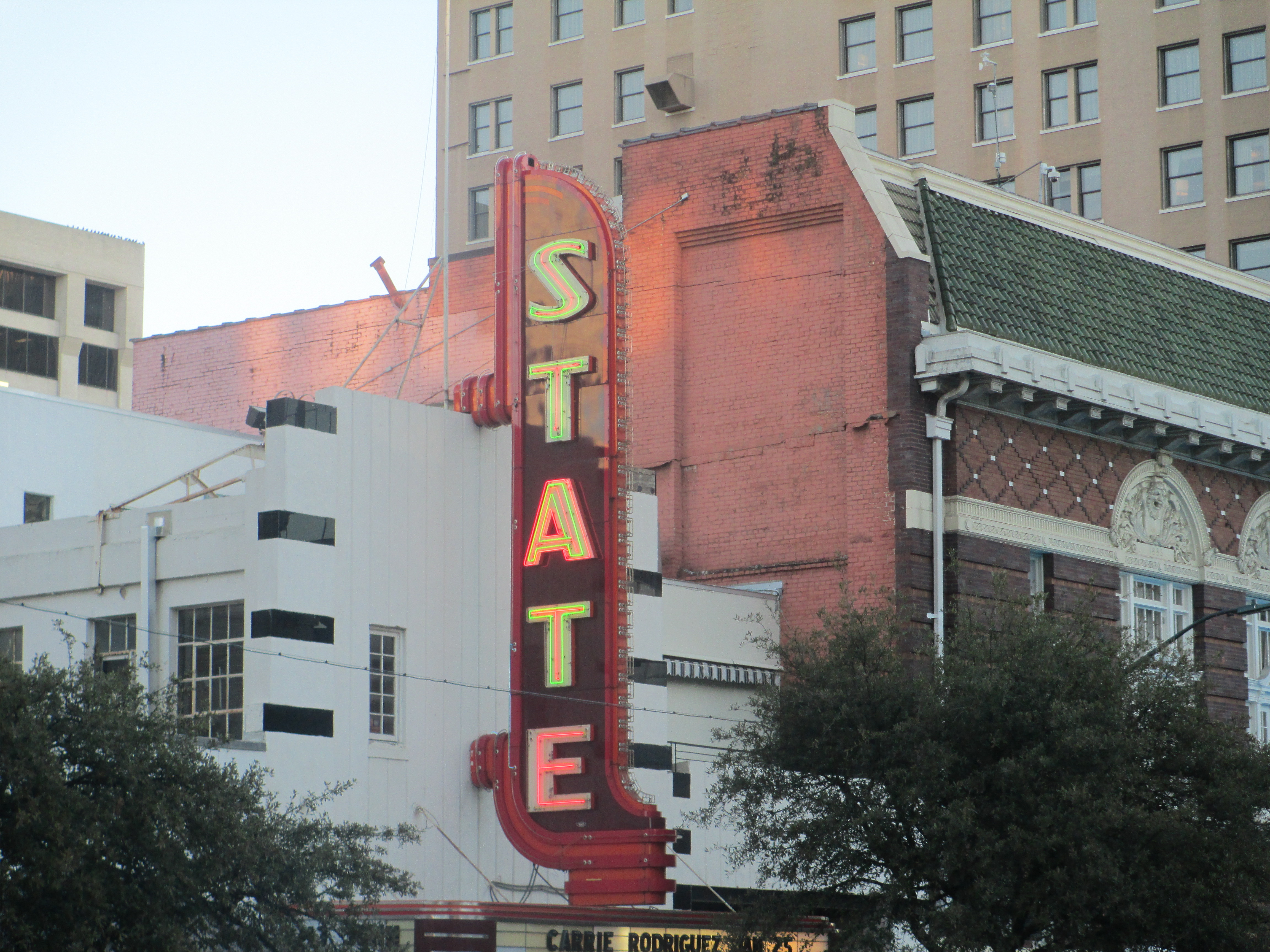 State Theater in Austin, the first theater in the city designed exclusively to show movies